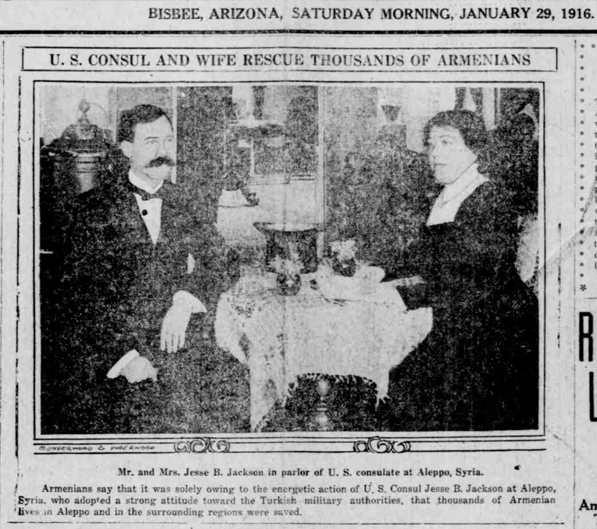 Jesse B. Jackson was the American Consul in Aleppo and an important eyewitness to the Armenian Genocide. He is especially known for saving the lives of thousands in the Syrian deserts.